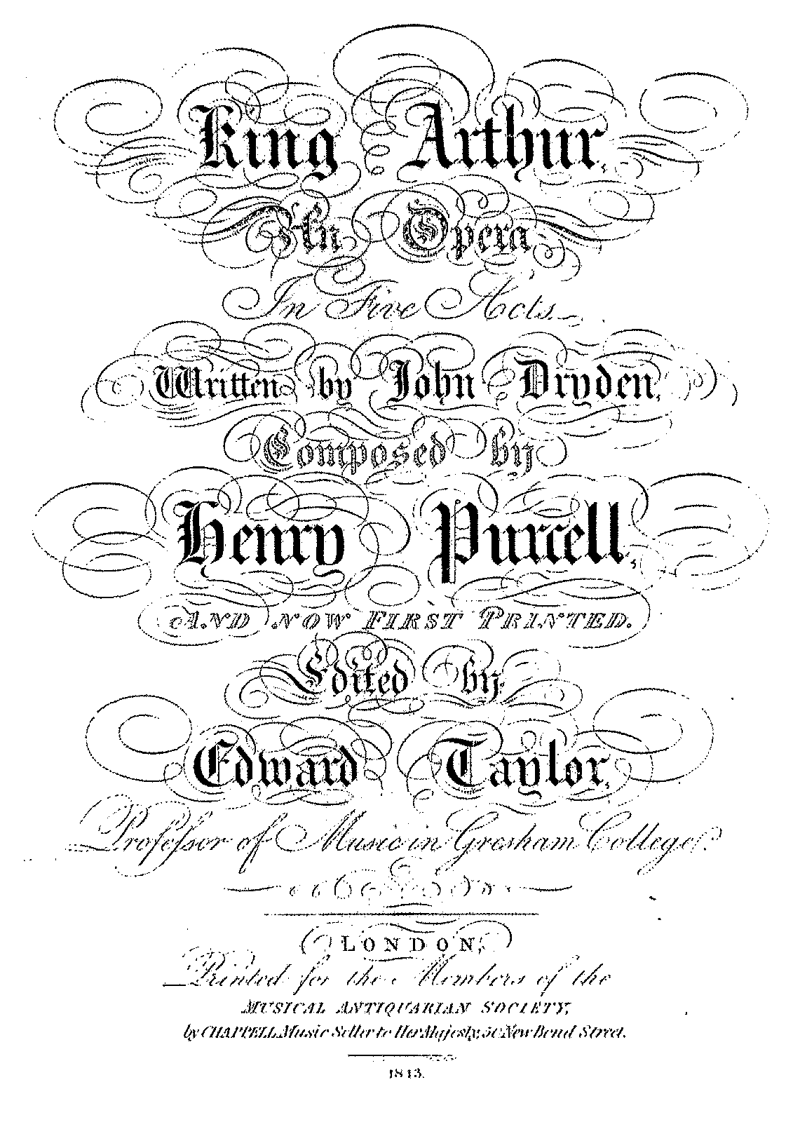 The title page of King Arthur (opera) by Henry Purcell (English baroque composer).